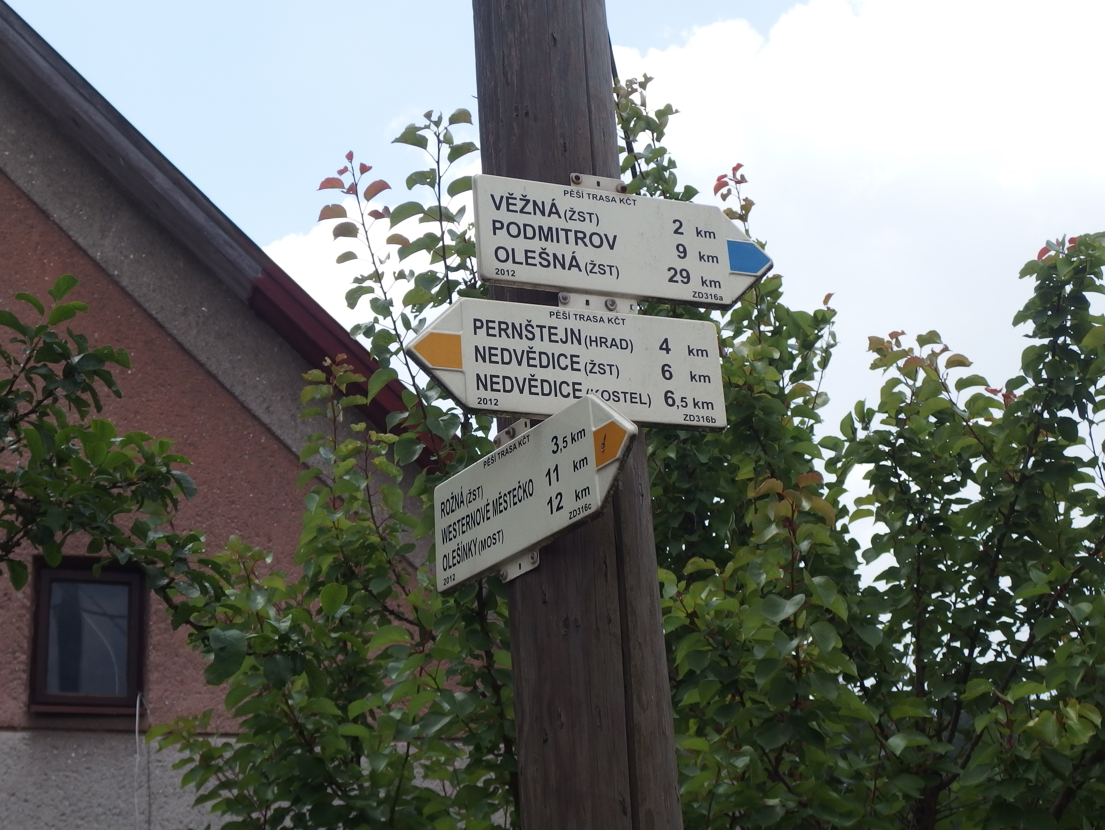 Věžná, Žďár nad Sázavou District, Czechia.